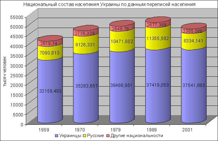 National structure of the population of Ukraine according to population censuses